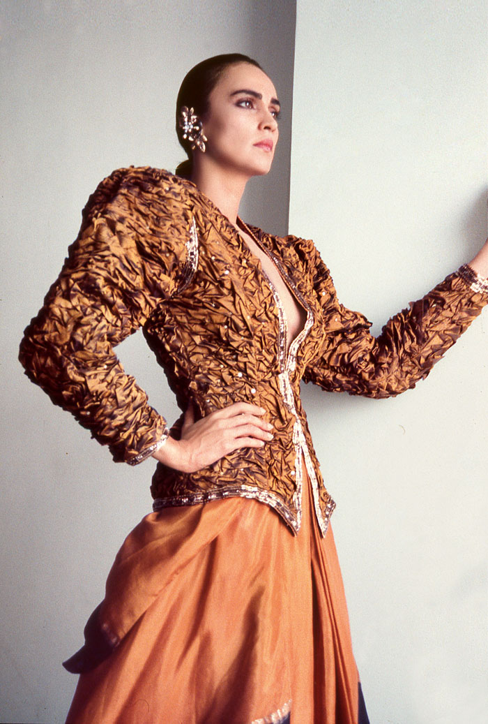 Photo used in 2003 publication of Vogue India.